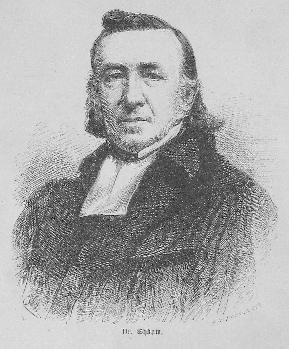 caption: "Dr. Sydow."